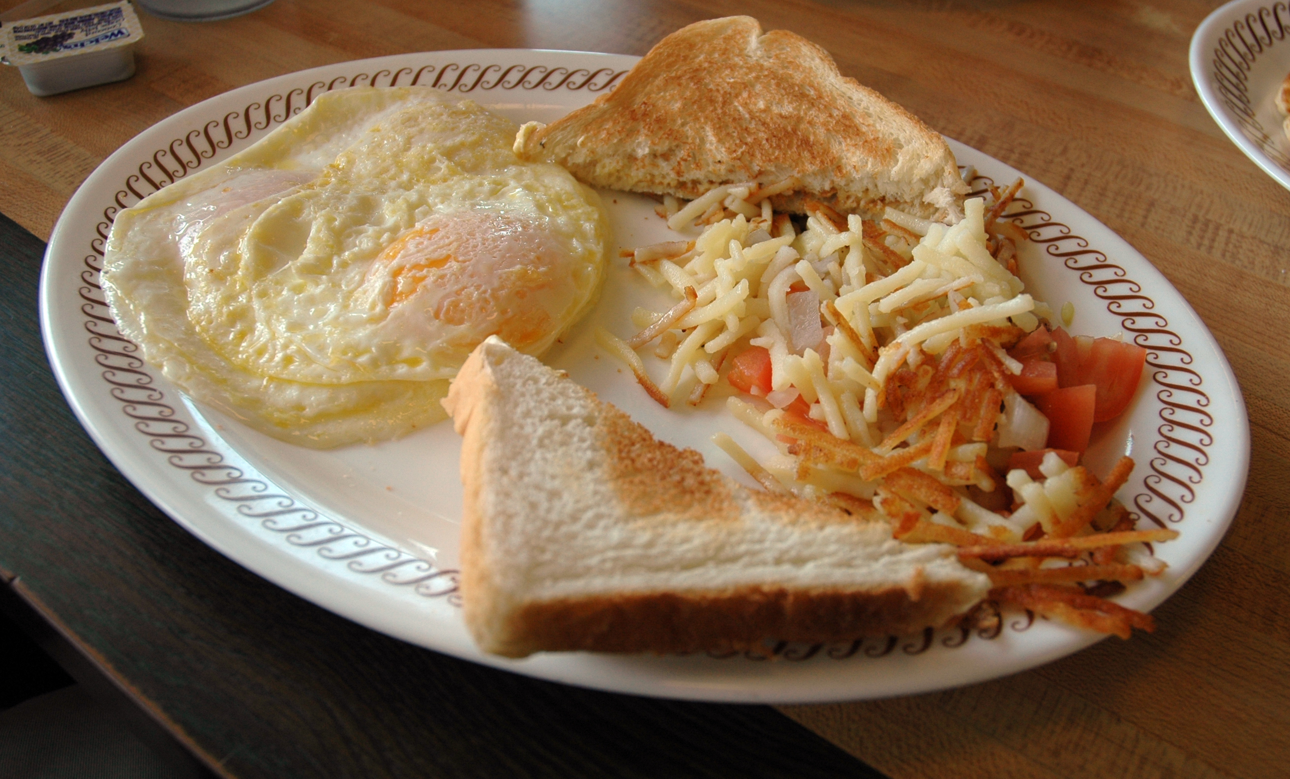 USA restaurant Waffle House - Three Eggs and Toast - Arkansas